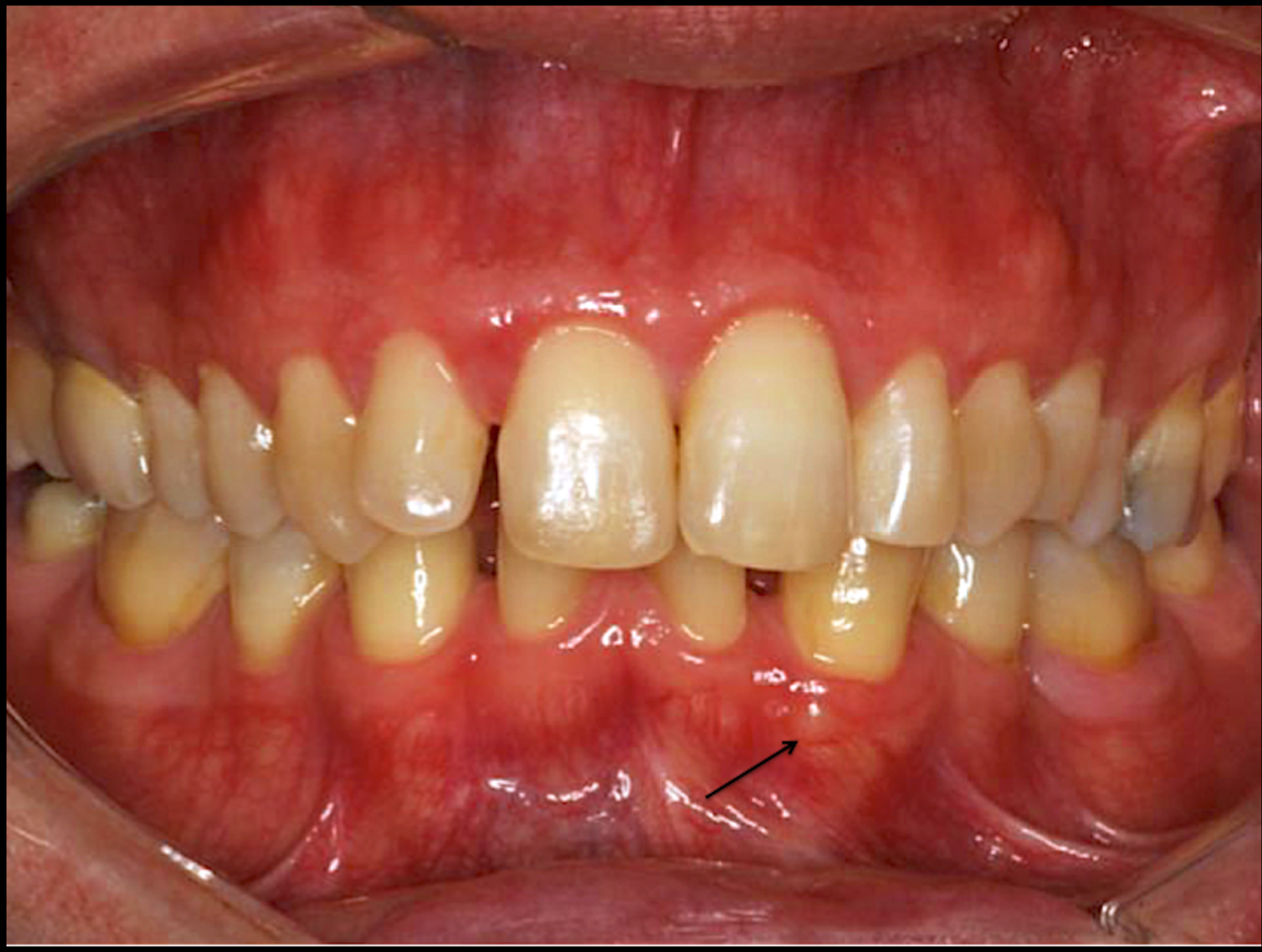 Clinical aspect of the gingival cyst (arrow), showing the very small size of the lesion, denoting the difficulty in spotting it without thorough examination.